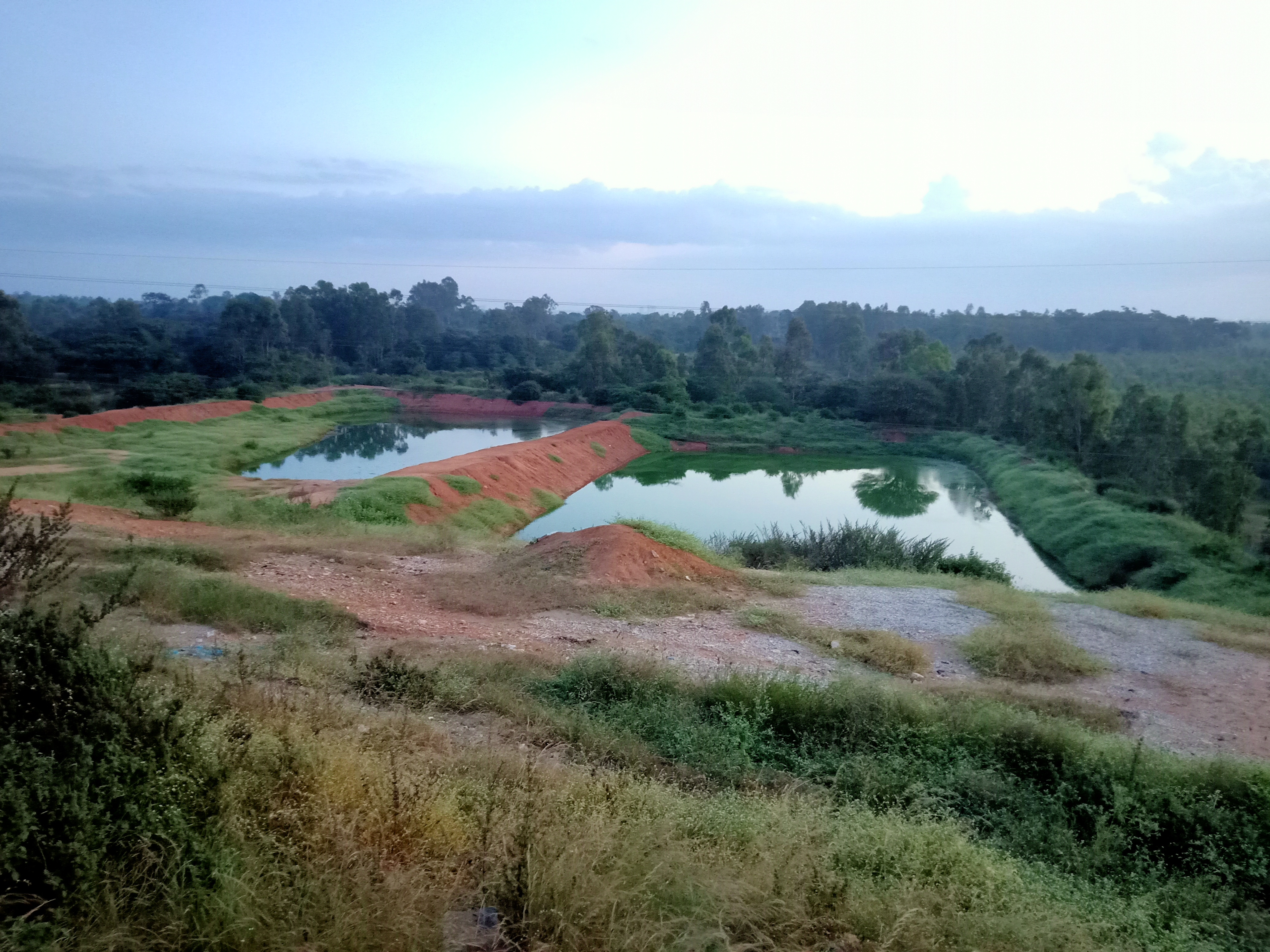 Landfill leachate tank at Mavallipura landfill